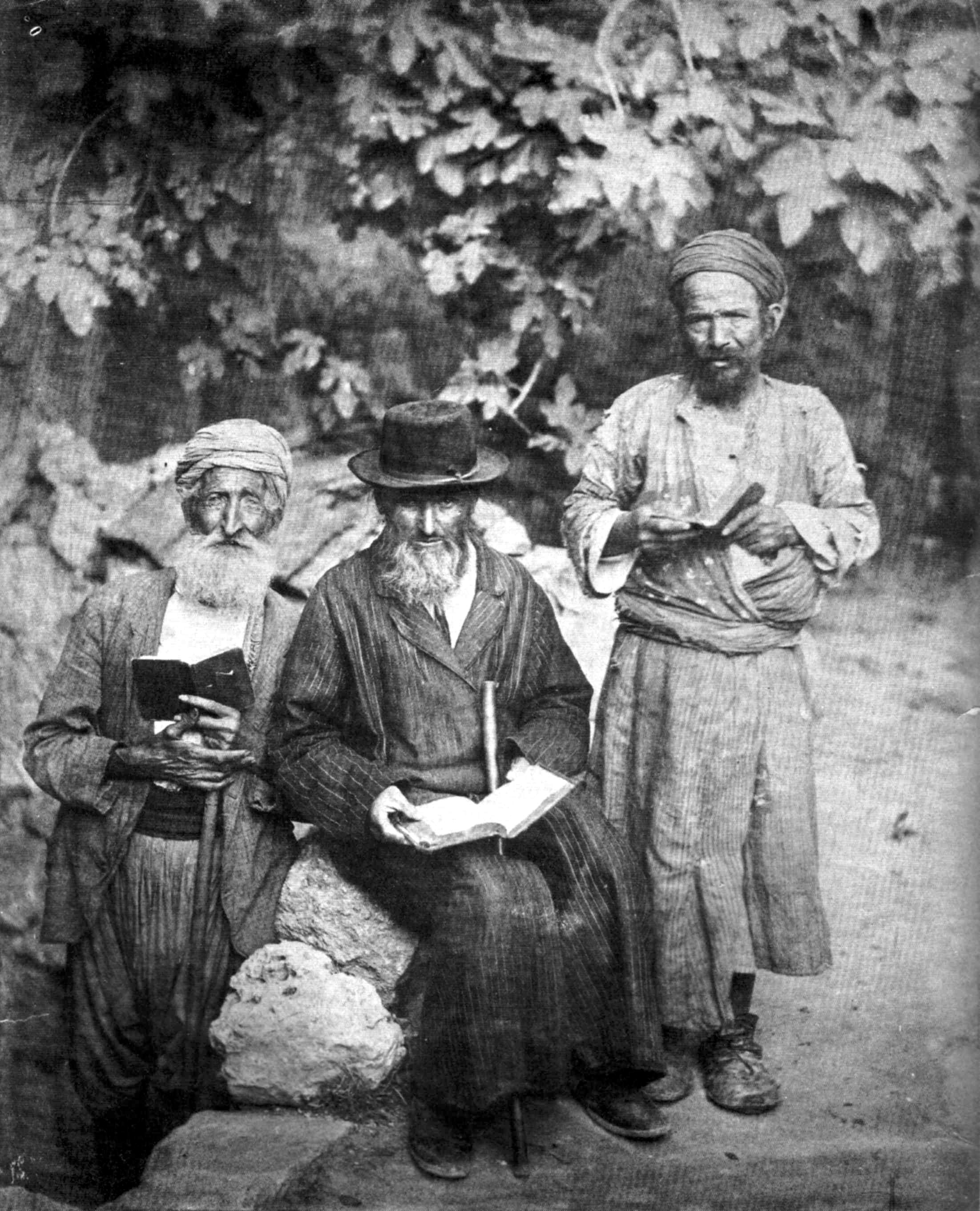 Jews in Jerusalem en:1895. From the en:1901-en:1906 Jewish Encyclopedia, now in the public domain.[1 Category:Jewish Encyclopedia images